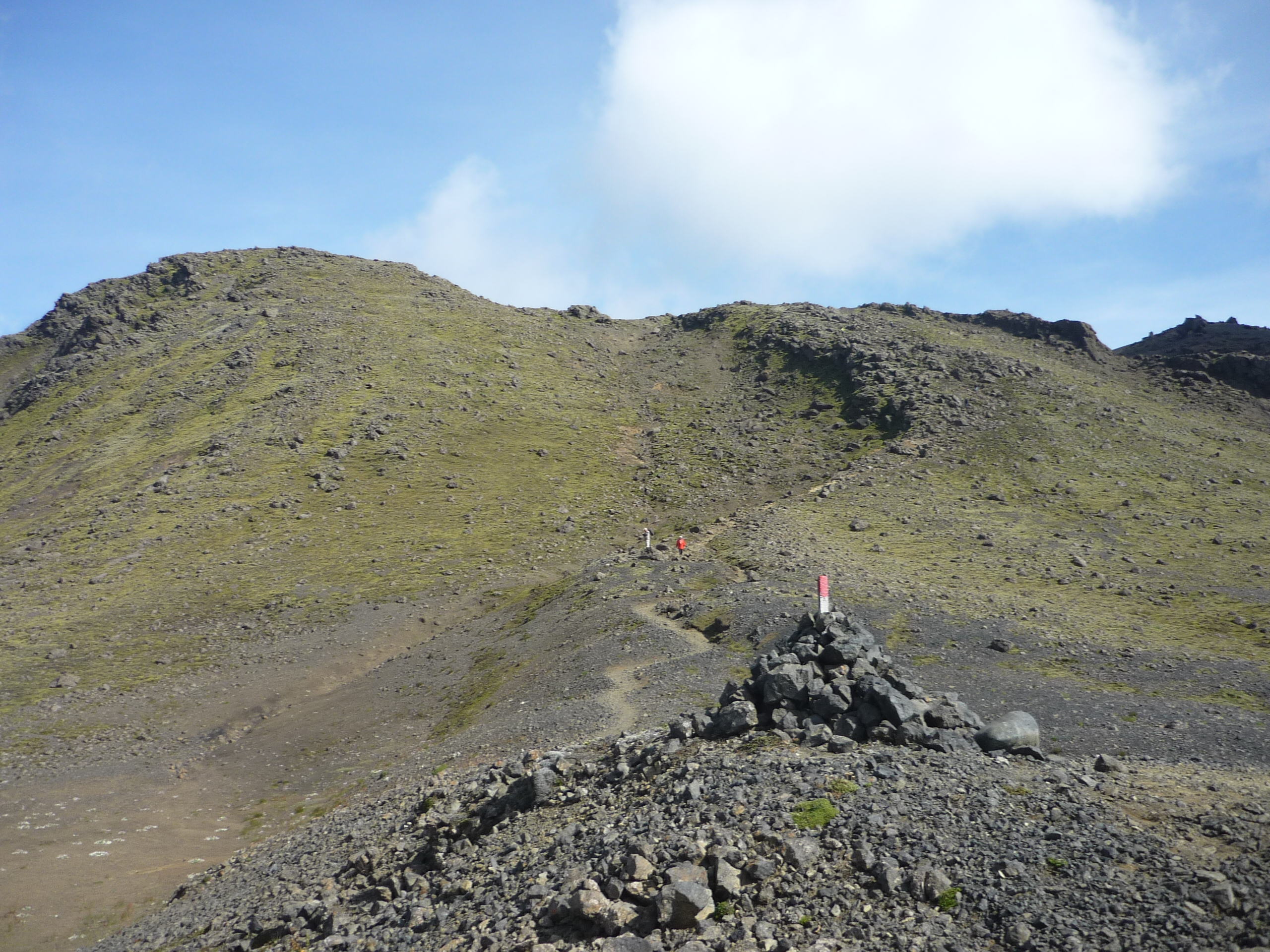 Laki trail, Iceland